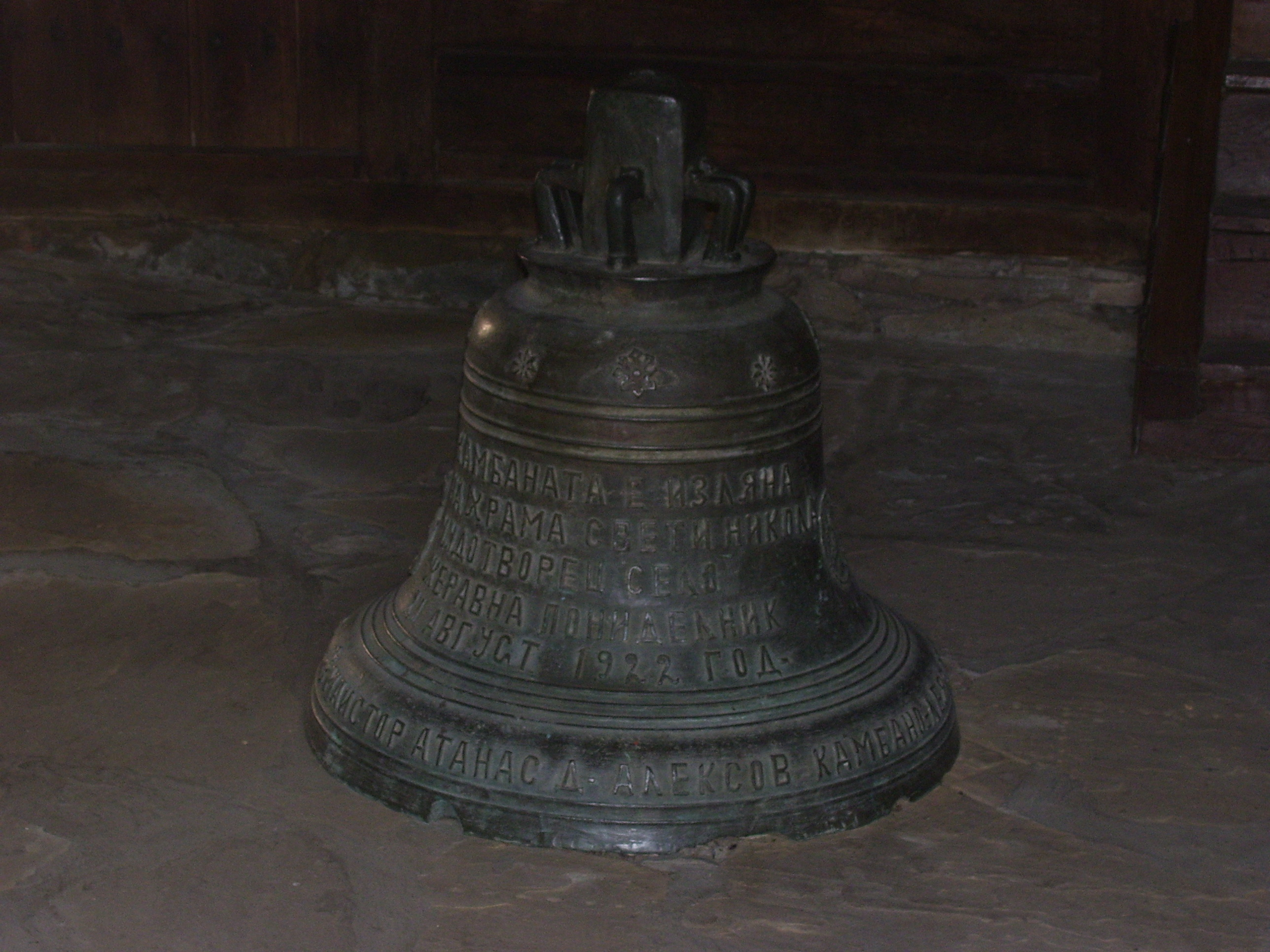 Zheravna Saint Nicholas Church Bell by Atanas Alexov from Gorno Brodi.